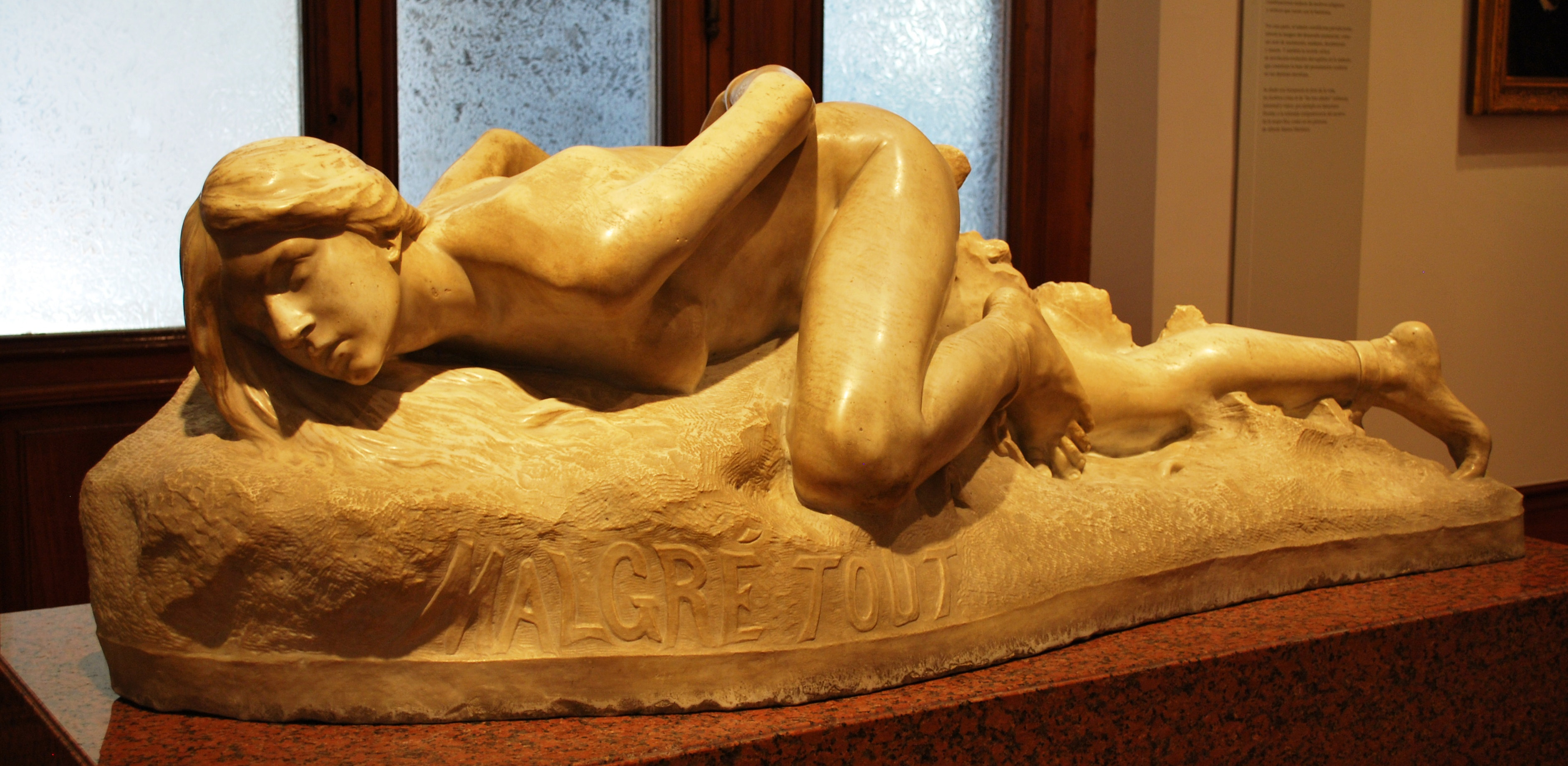 "Malgre Tout" by Jesús F. Contreras (1866-1902) at the Museo Nacional de Arte in Mexico City